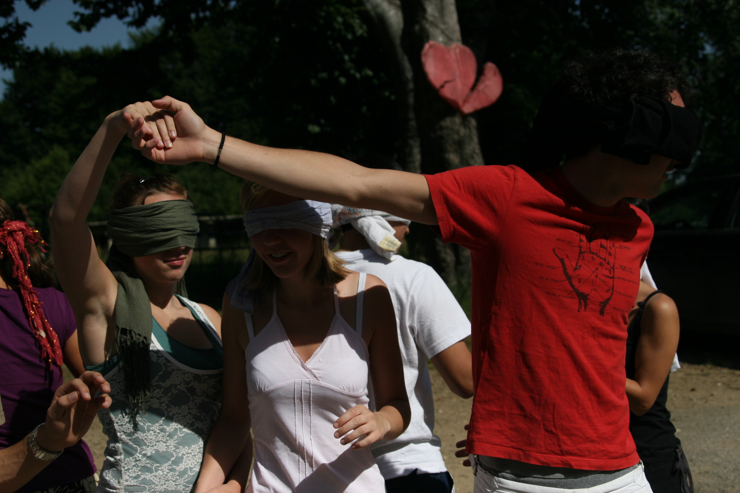 An example of a CISV educational activity - a cooperation and communication game